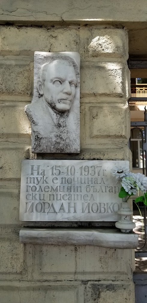 Yordan Yovkov plaque, Plovdiv